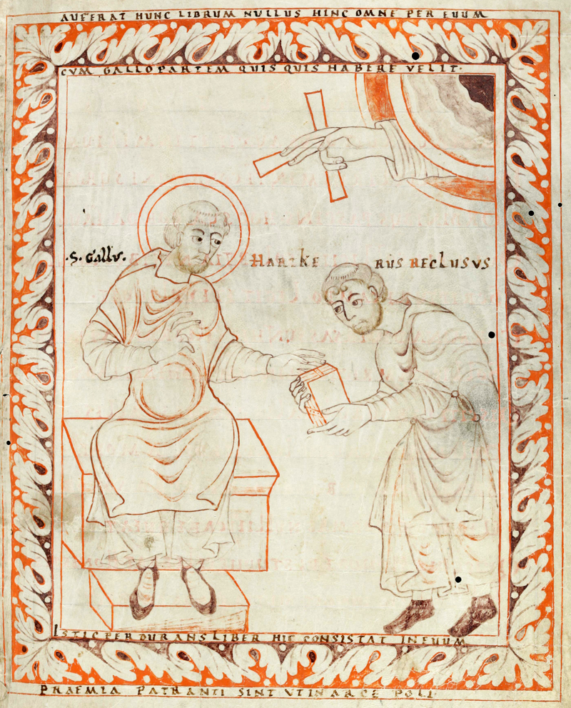 Front page of the music manuscript (antiphonary) of the 11th c. from Sankt-Gallen